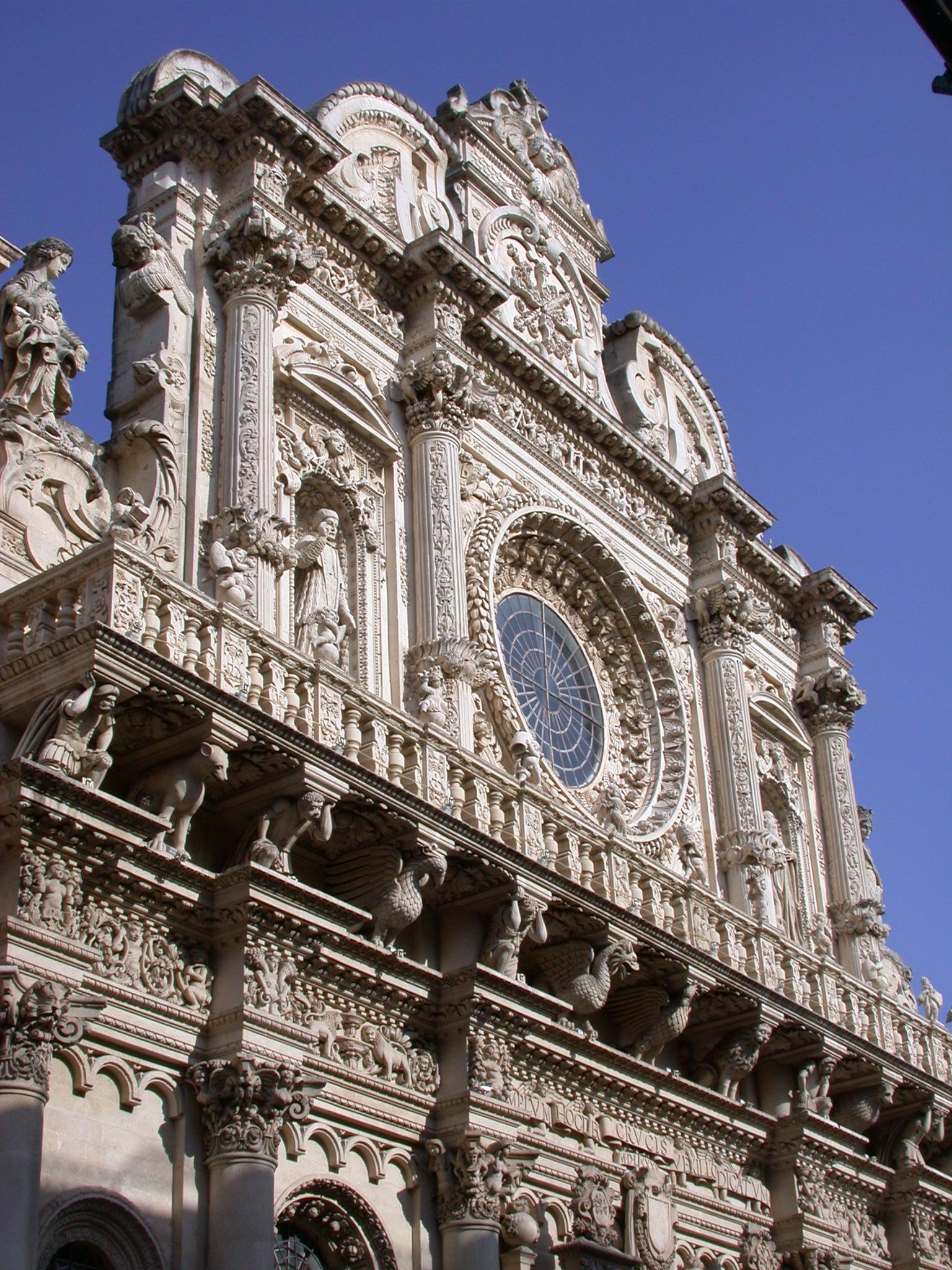 see above